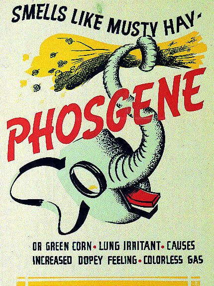 World War II Gas Identification Posters, ca. 1941-1945